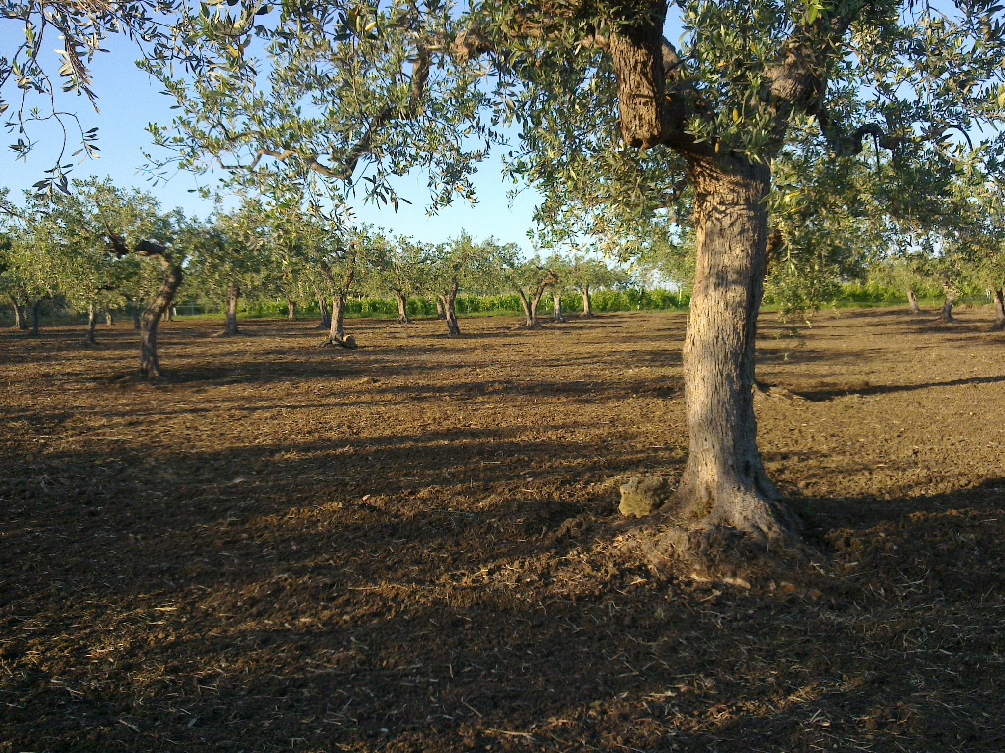 Nocellara del Belice (orchard) - Italy